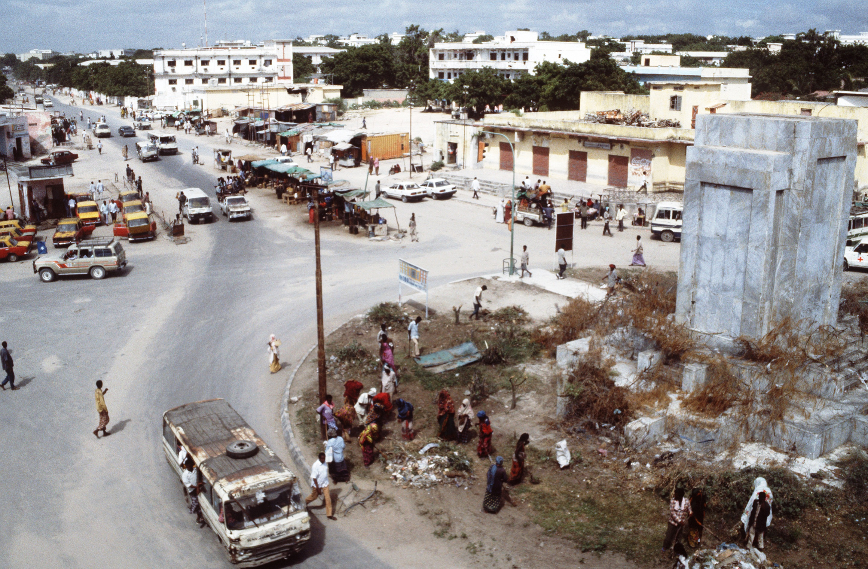 A view of the K-4 Circle outside of the Bangladesh Army compound in Mogadishu. Somalis work around and within the compound in exchange for food in a work-for-food program set up by the Bangladeshis.